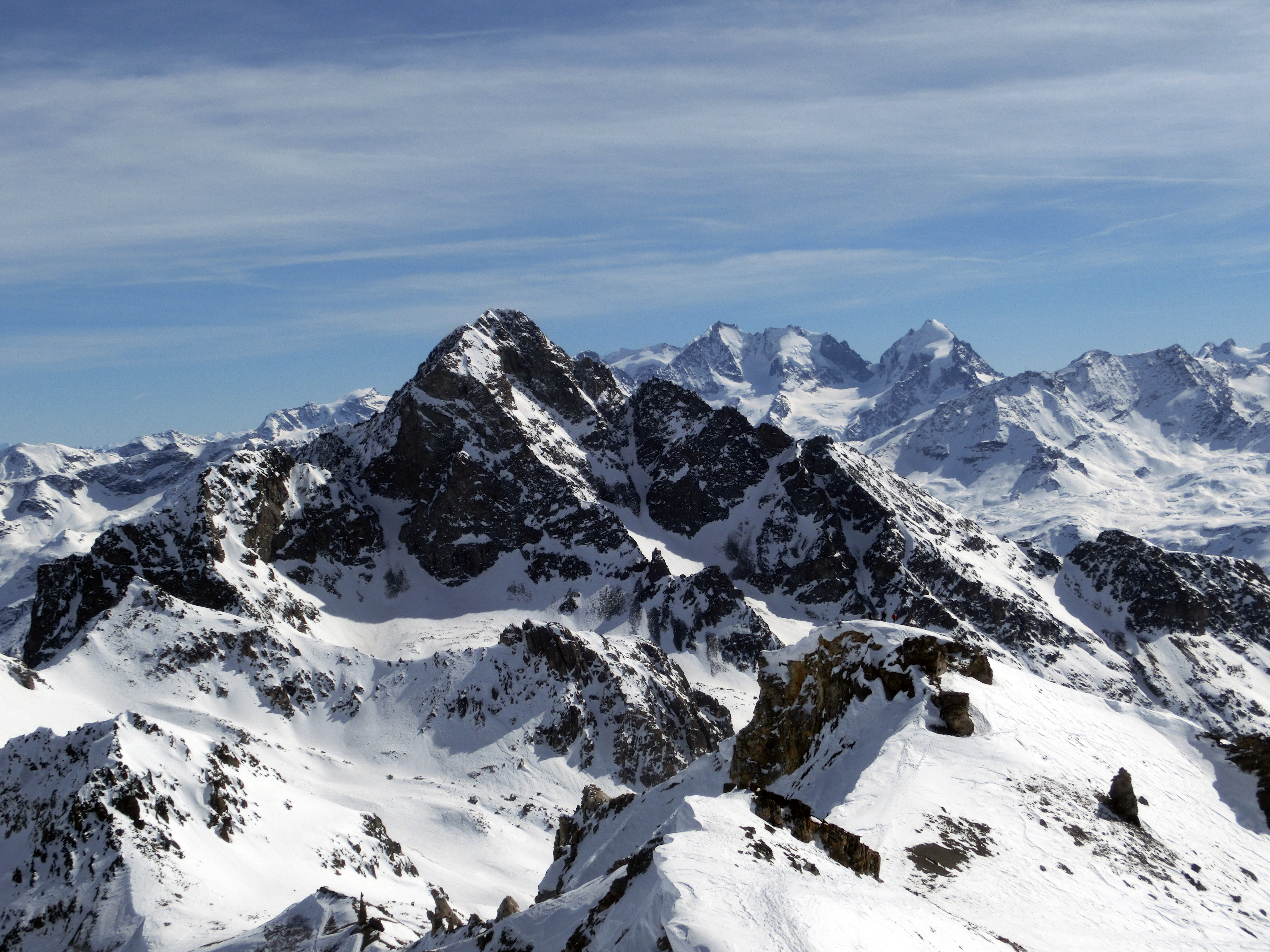 Piz Julier and Bernina range as seen from Piz Surgonda (Bivio/Bever, Grison, Switzerland).